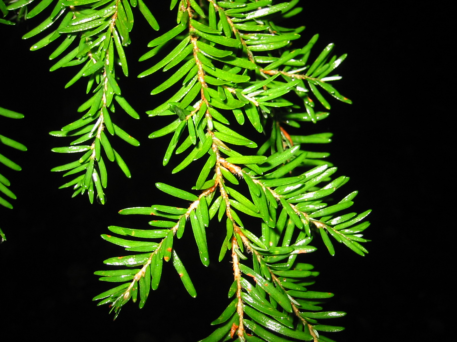 Western Hemlock foliage